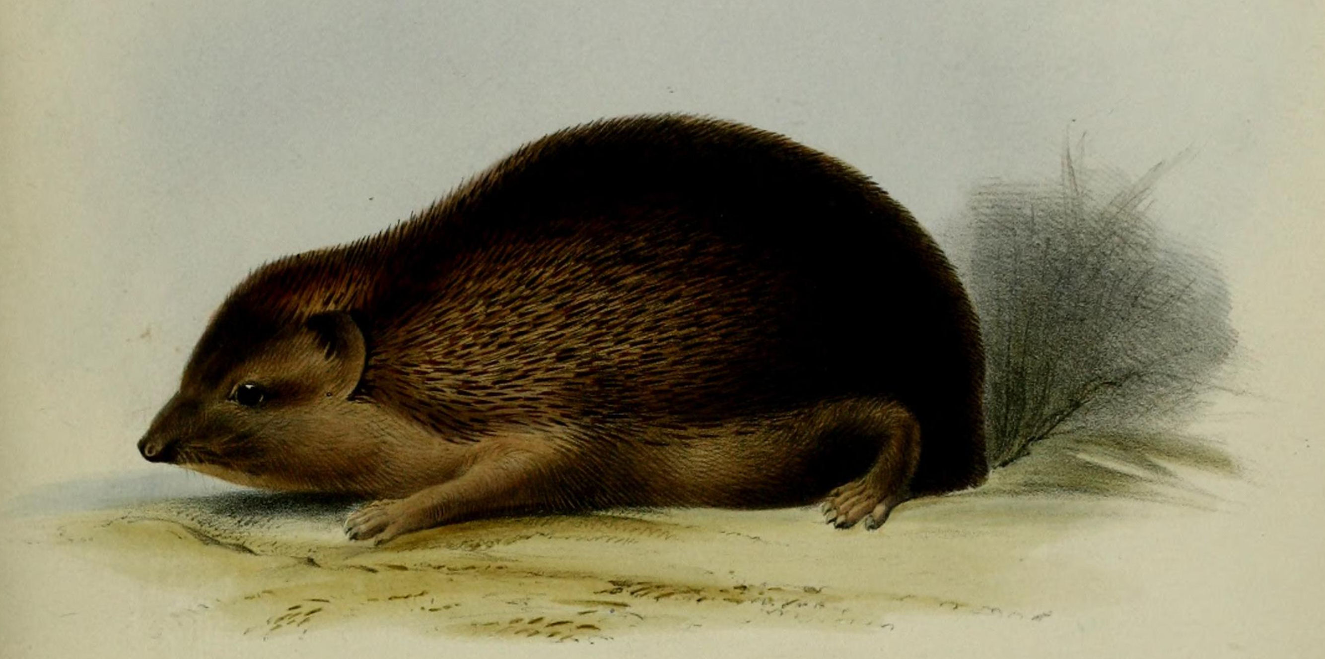 Drawing of the Lesser Hedgehog Tenrec (Echinops telfairi), published by William Charles Linnaeus Martin 1841